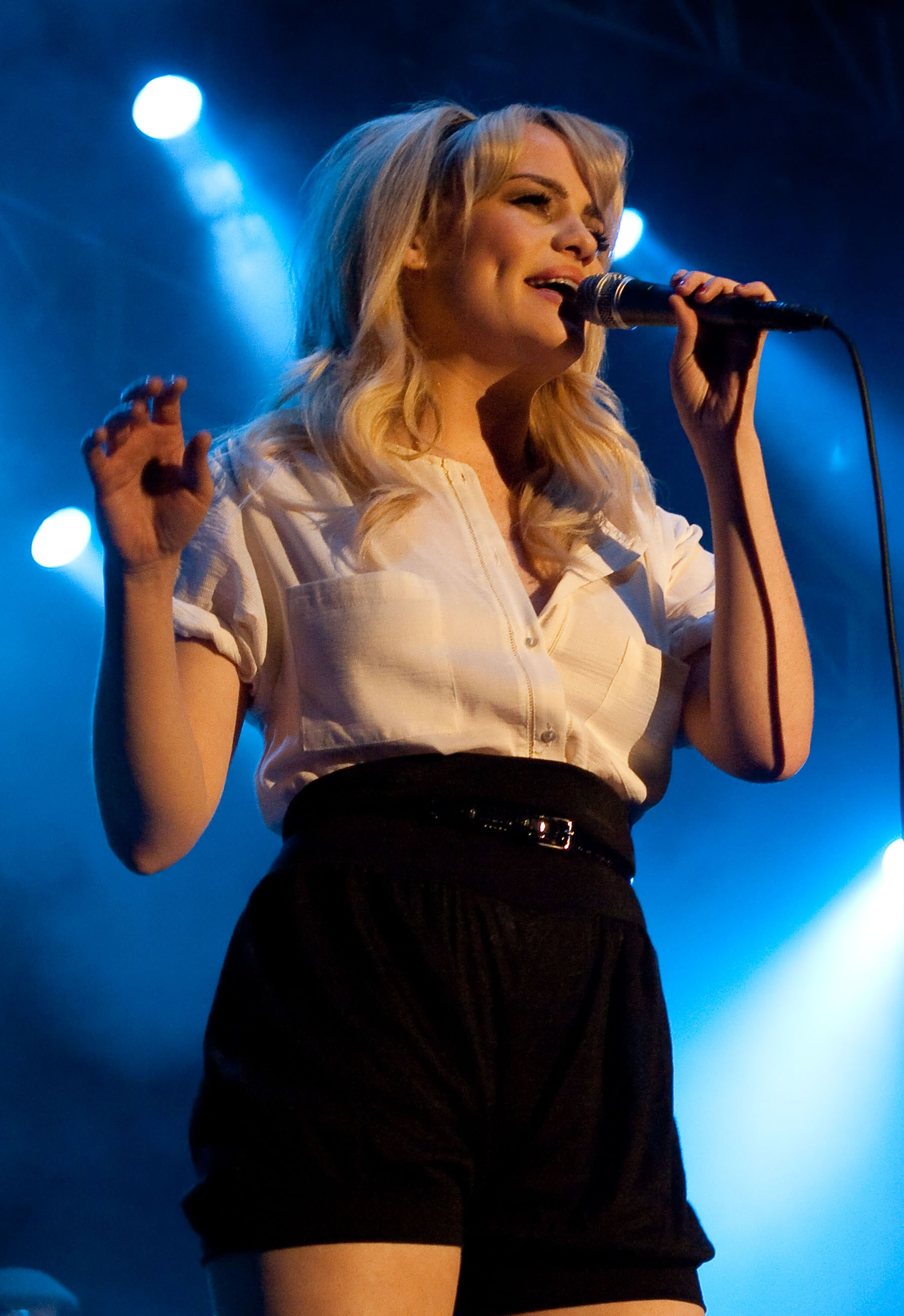 Duffy performing at Murcia, Spain in 2009.